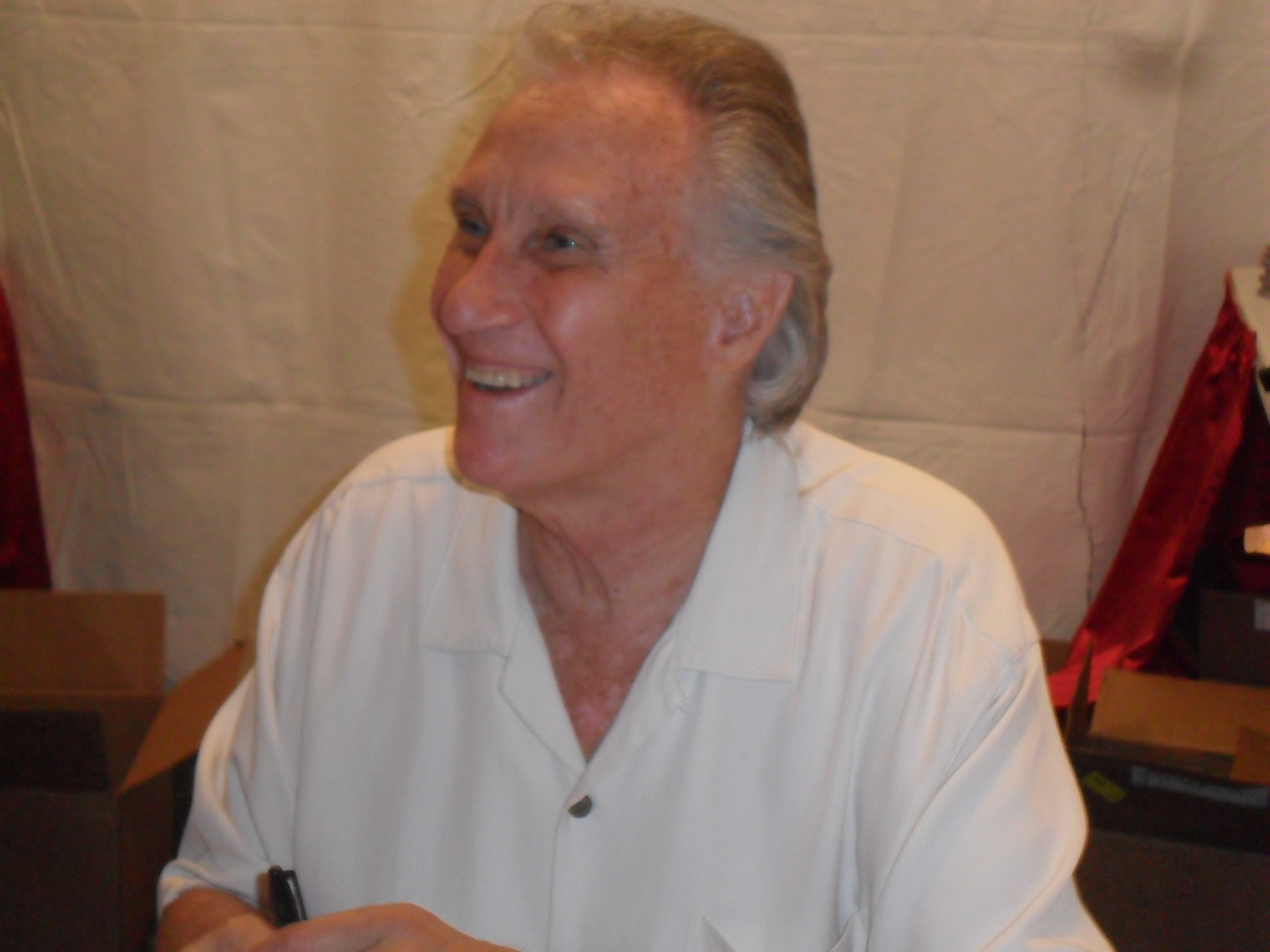 Bill Medley speaking to fans after performing at the Big E fair grounds, Springfield, Massachusetts, on September 14, 2012.